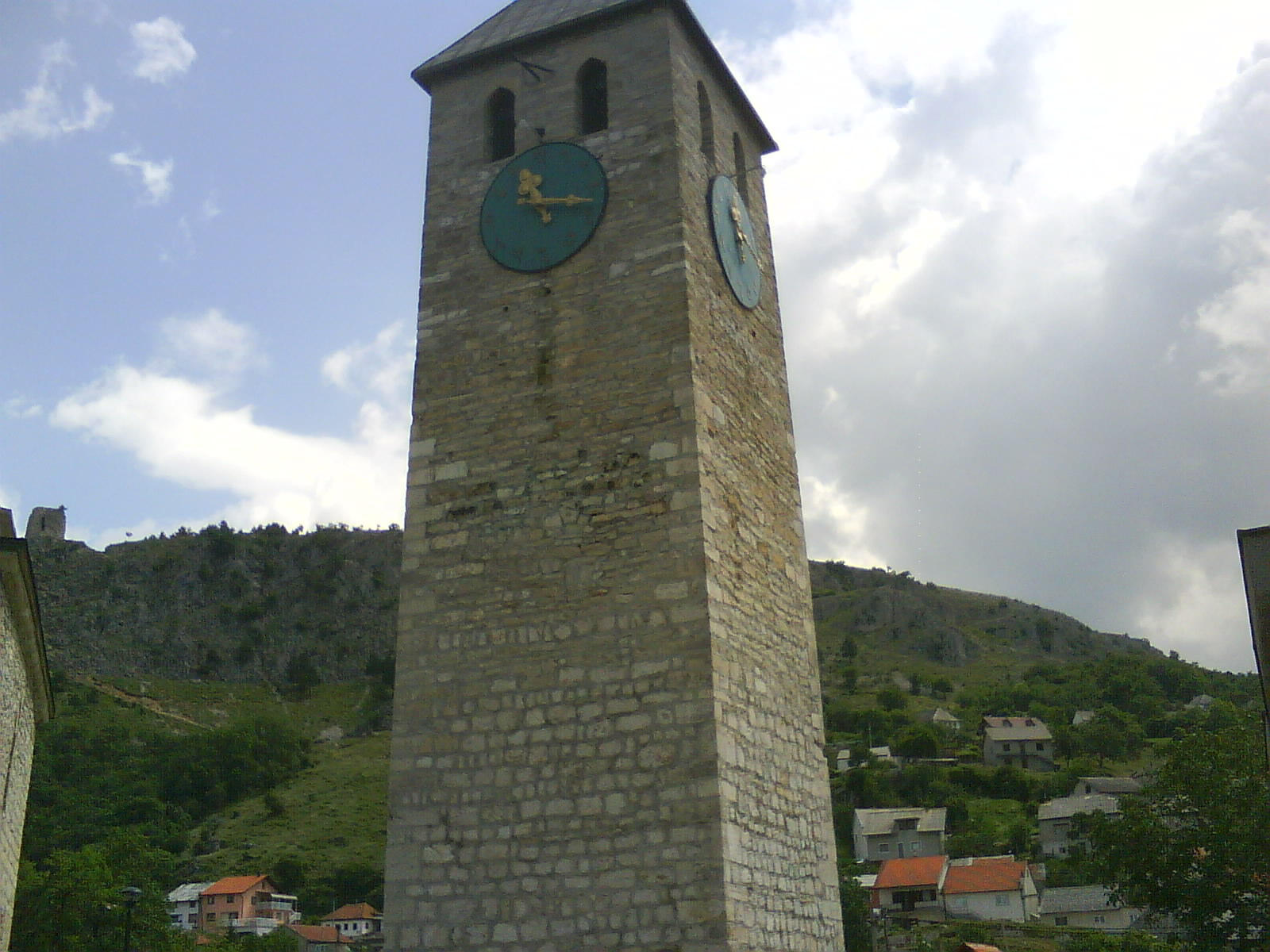 Clock tower, next to mosque in Livno